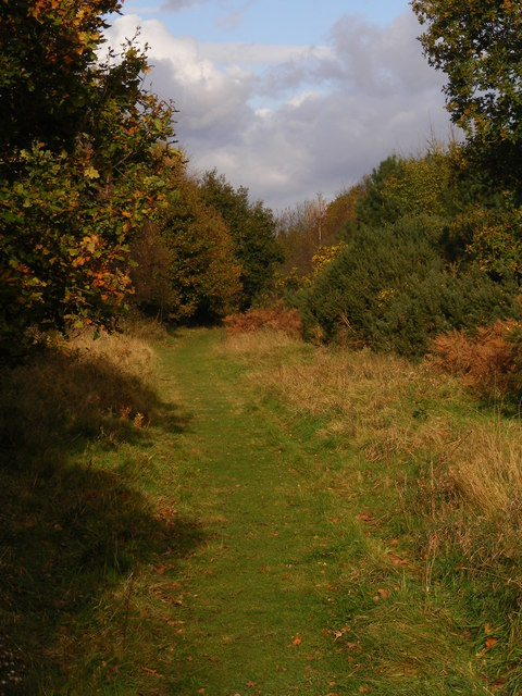 Dunwich Forest One of the many forest paths